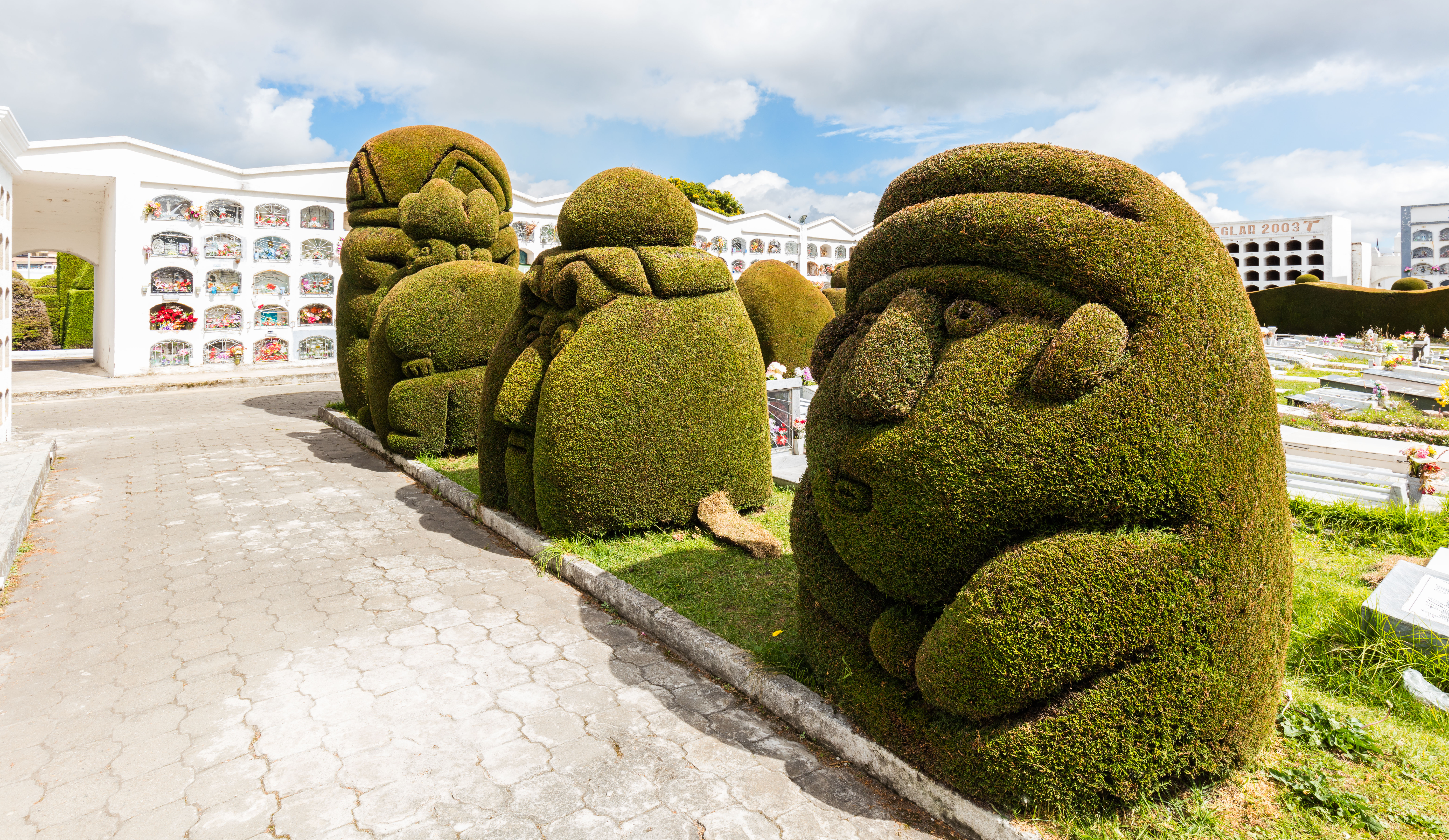 Cemetery, Tulcán, Ecuador